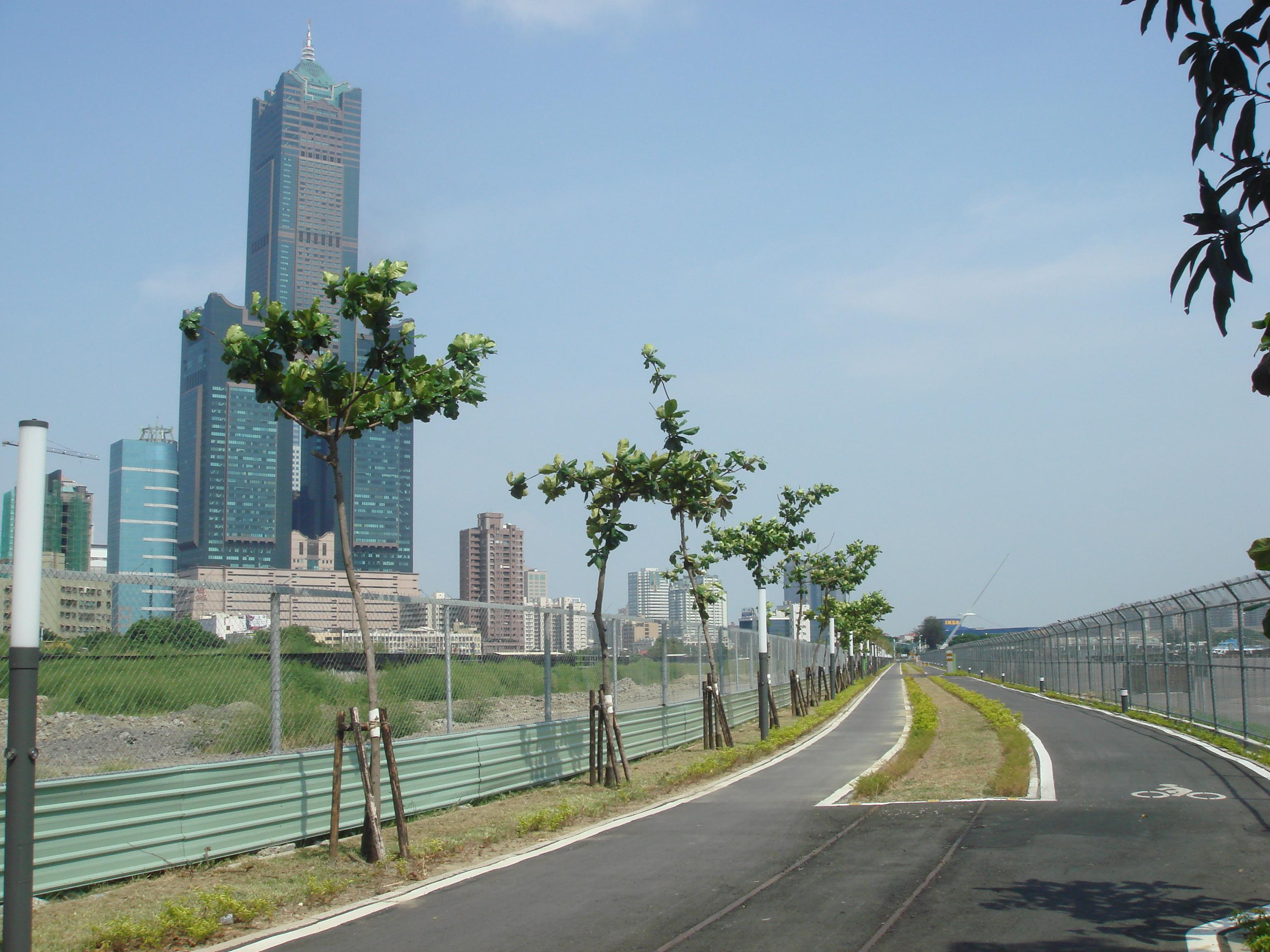 Kaohsiung Port Bilkway (also called Kaohsiung Port Line Rail Trail).The photo on the left shows the Tuntex Sky Tower.